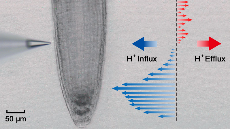 An H+ flux profile of Arabidopsis root across several zones, measured using non-invasive micro-test technology. This example shows strong H+ influx closer to the root tip, and slight H+ efflux further from the tip.